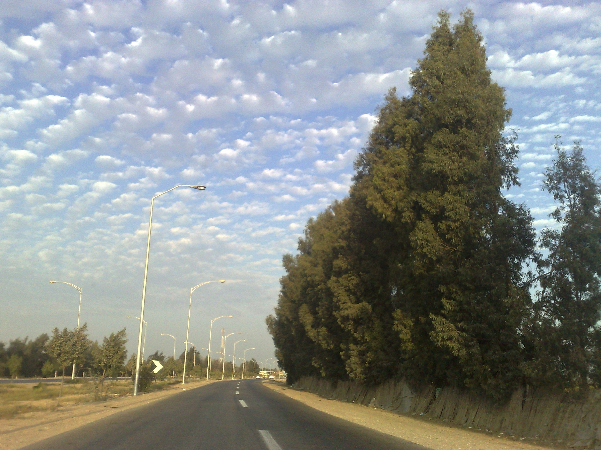 The Regional Road (Sadat City - Nile Delta)